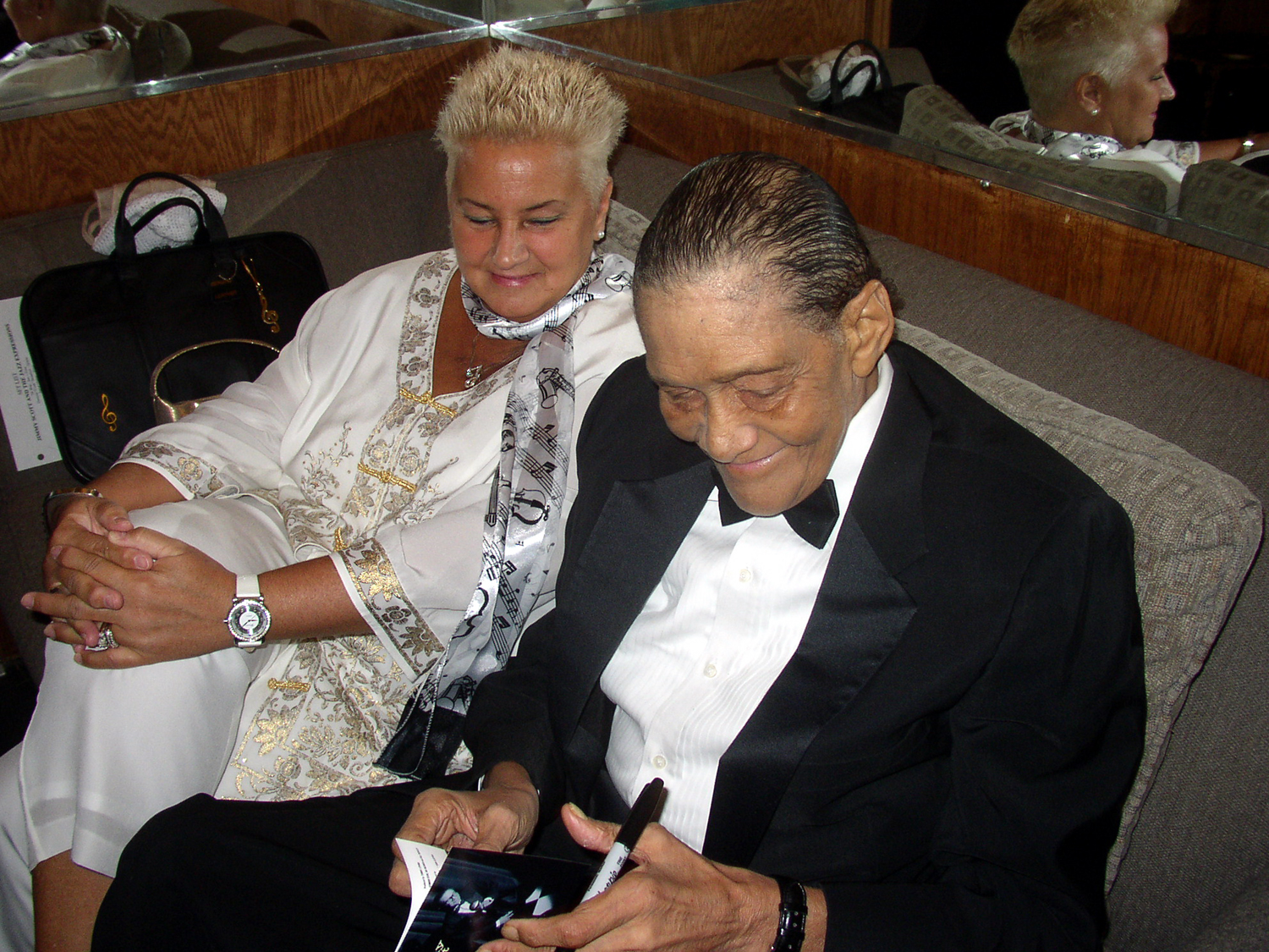 The octogenarian jazz vocalist "Little" Jimmy Scott appearing at the Iridium Jazz Club in New York City on September 4, 2004.